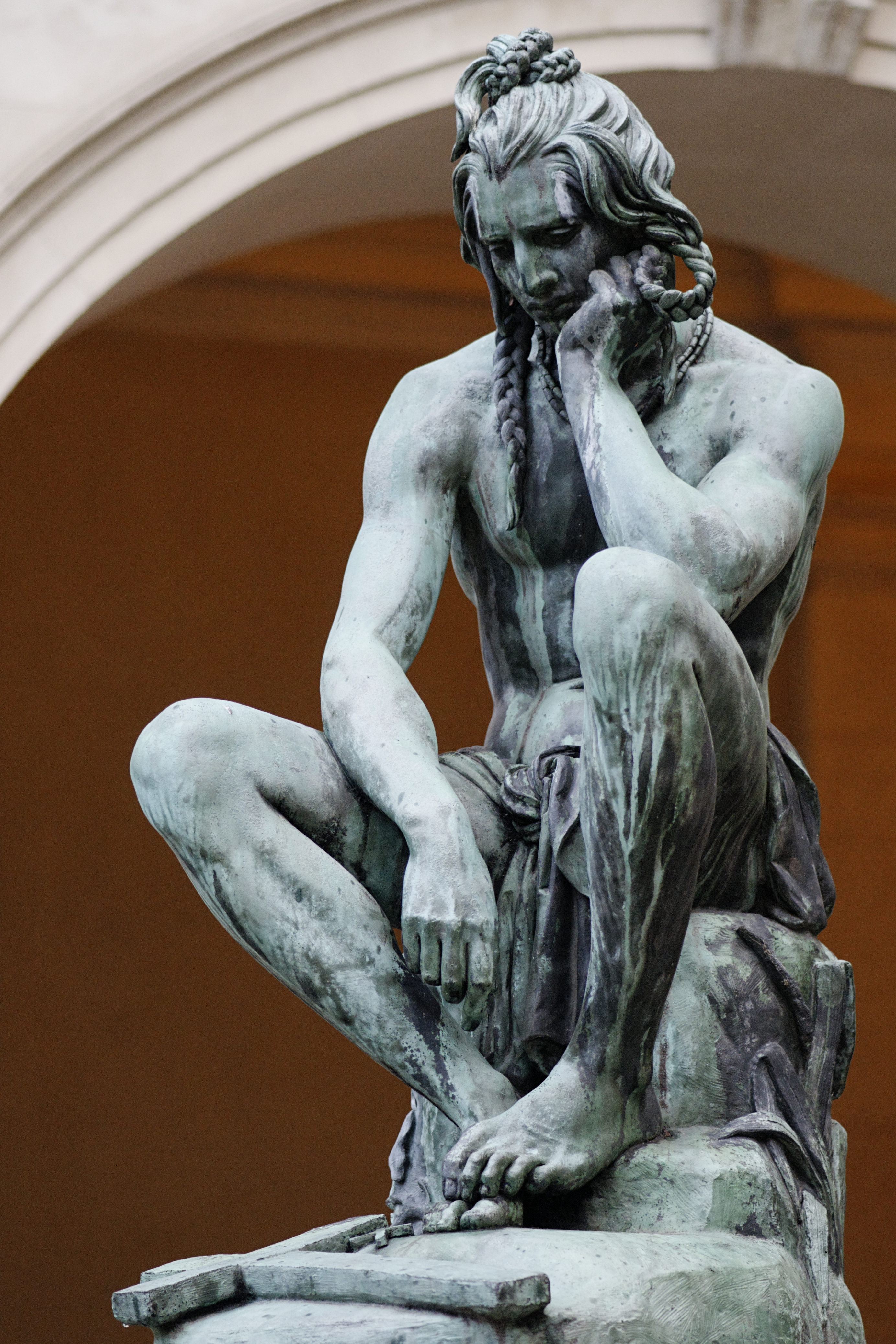 Chactas Meditating on Atala's Tomb, bronze, 1836.